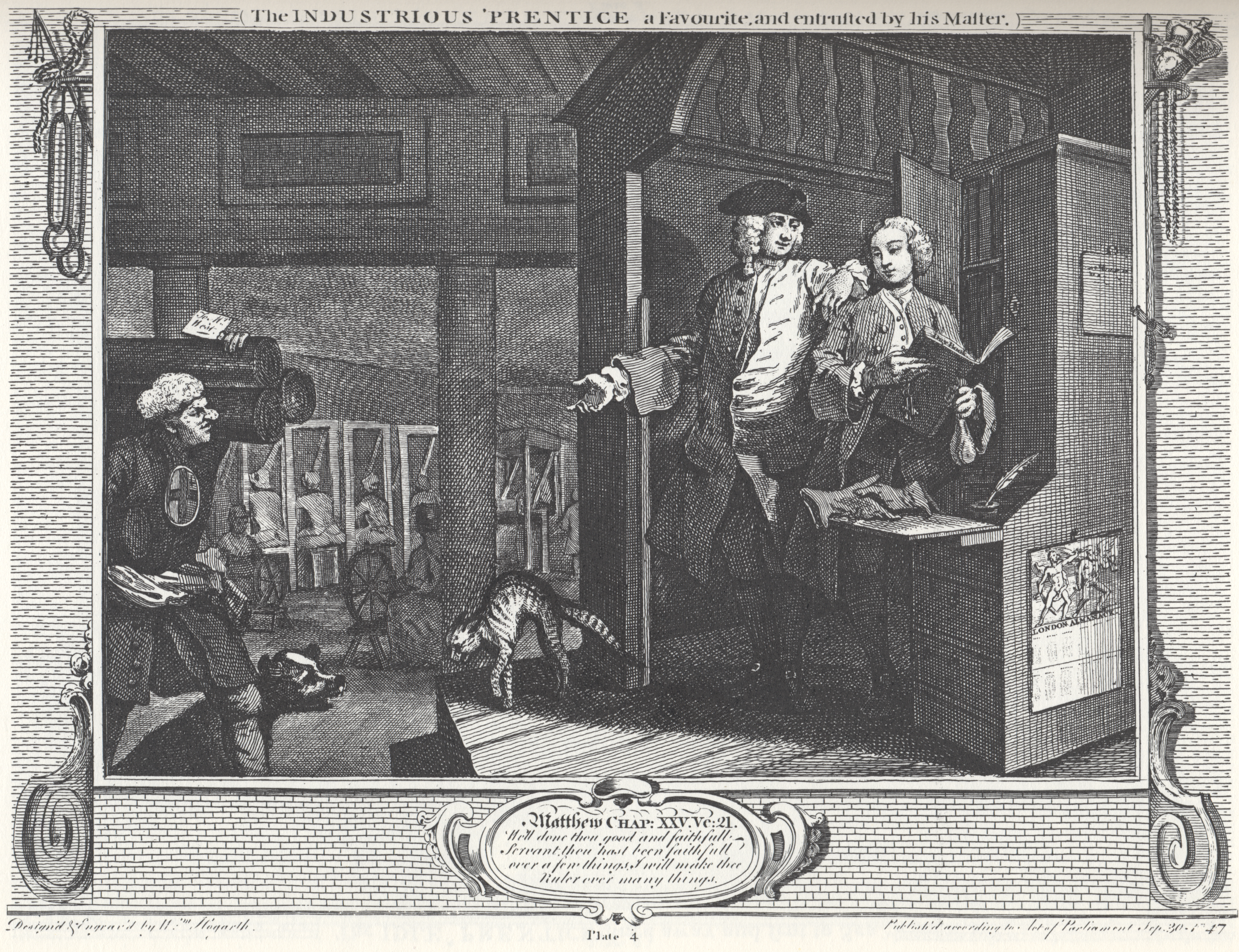 William Hogarth - Industry and Idleness, Plate 4; The Industrious 'Prentice a Favourite, and entrusted by his Master